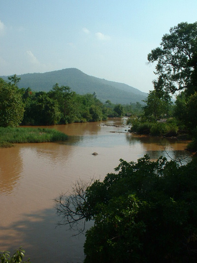 Khek River in Amphoe Wang Thong, Phitsanulok Province.